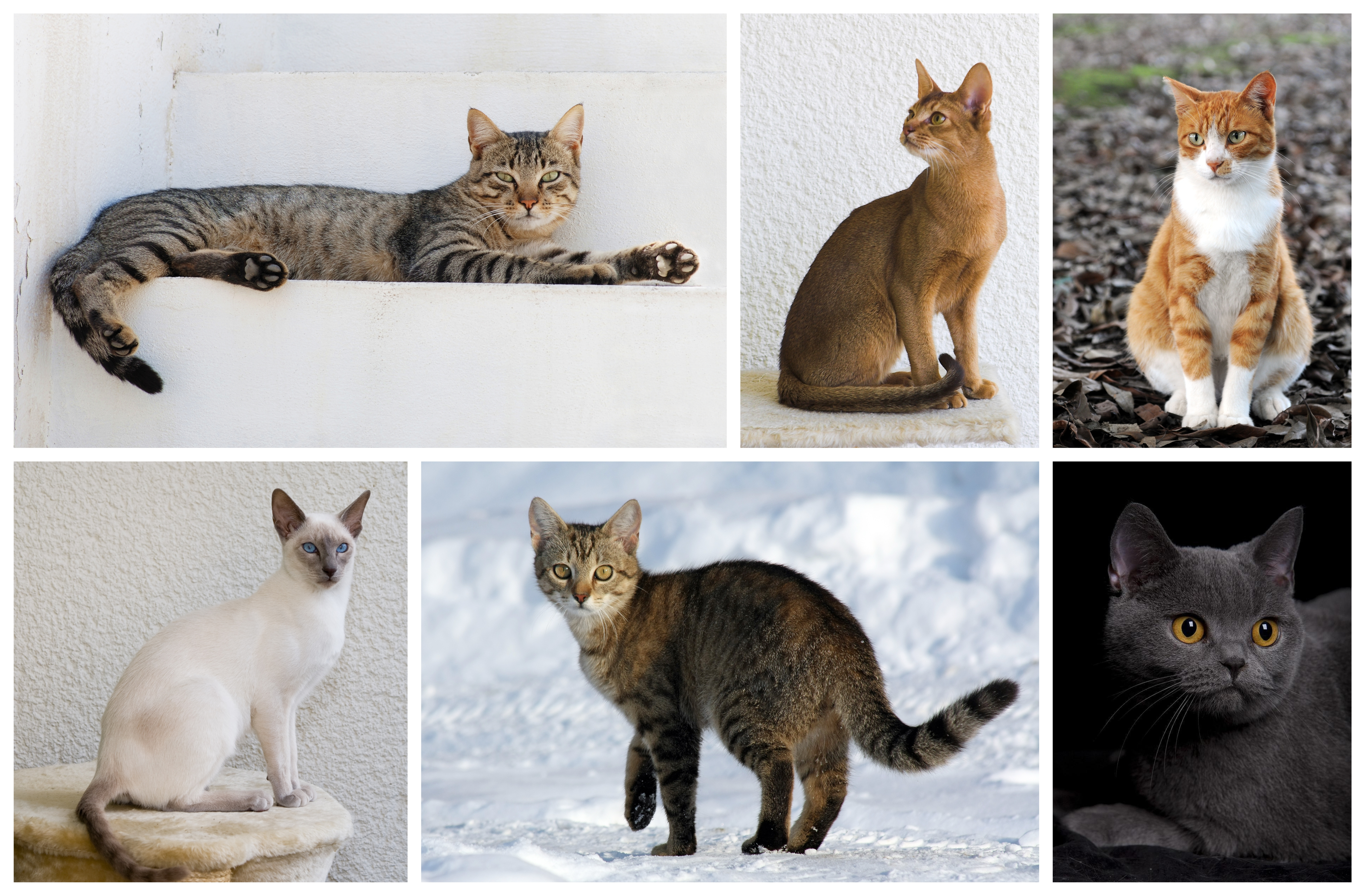 A montage of cat pictures using images from Wikimedia creators